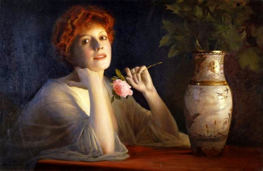 Painting by Max Nonnenbruch